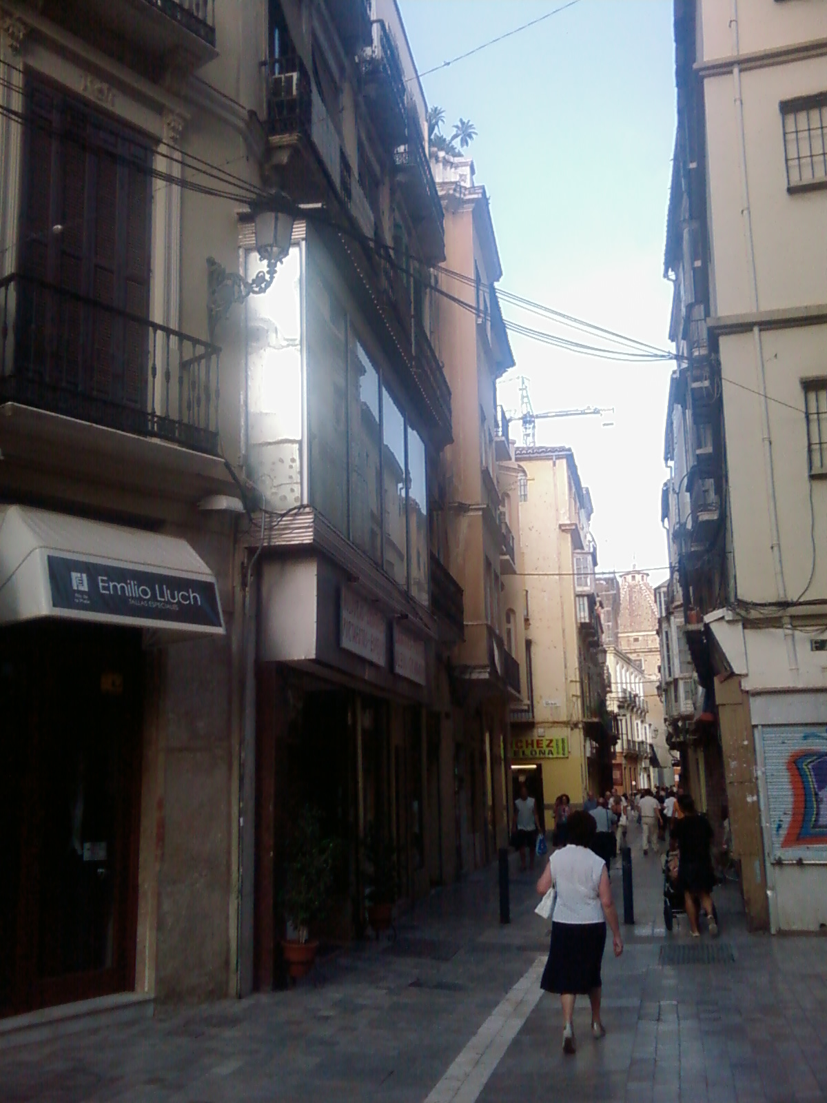 Calle de la Compañía (Society of Jesus Street), Málaga, Spain